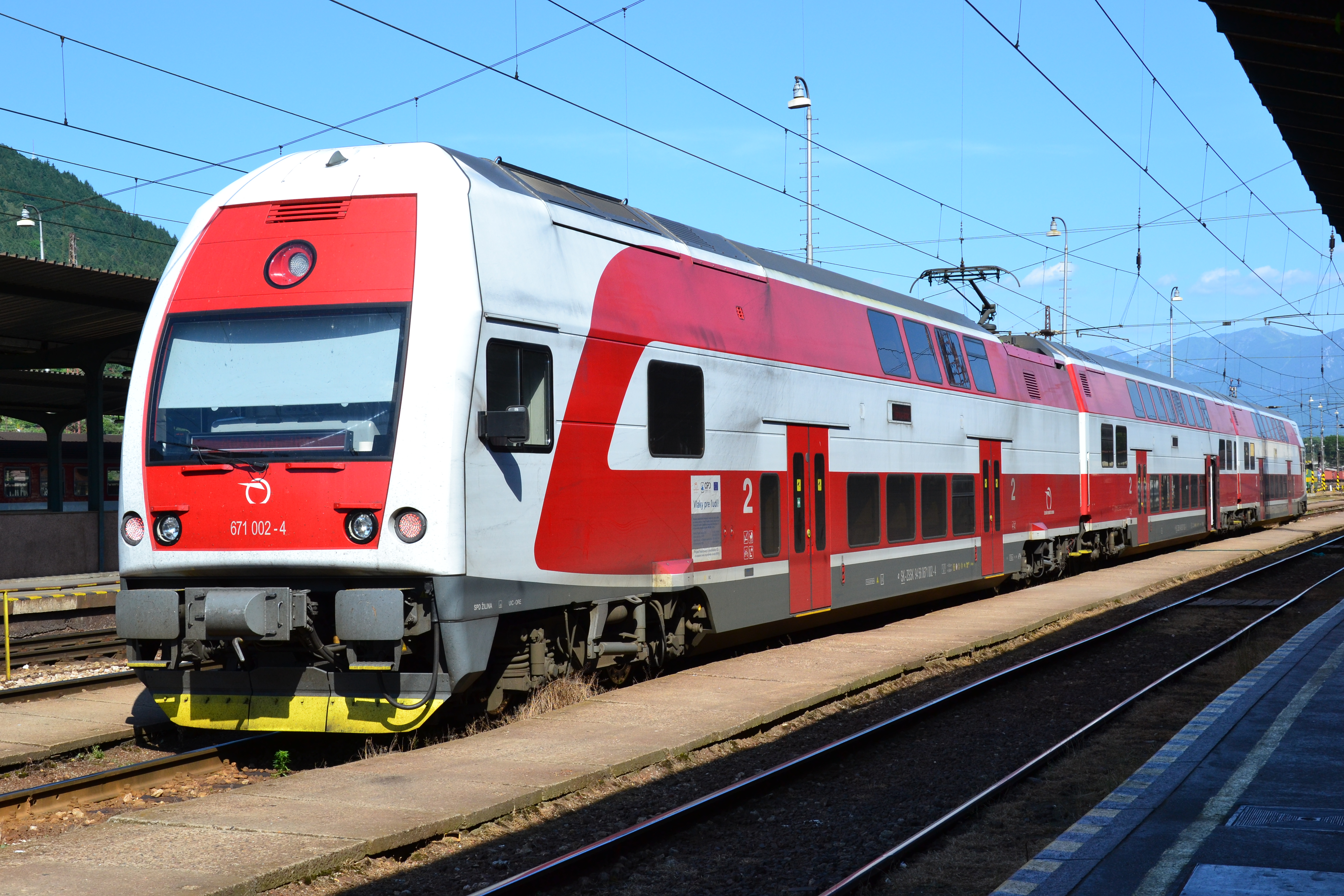 671 002-4 at Žilina's railway station